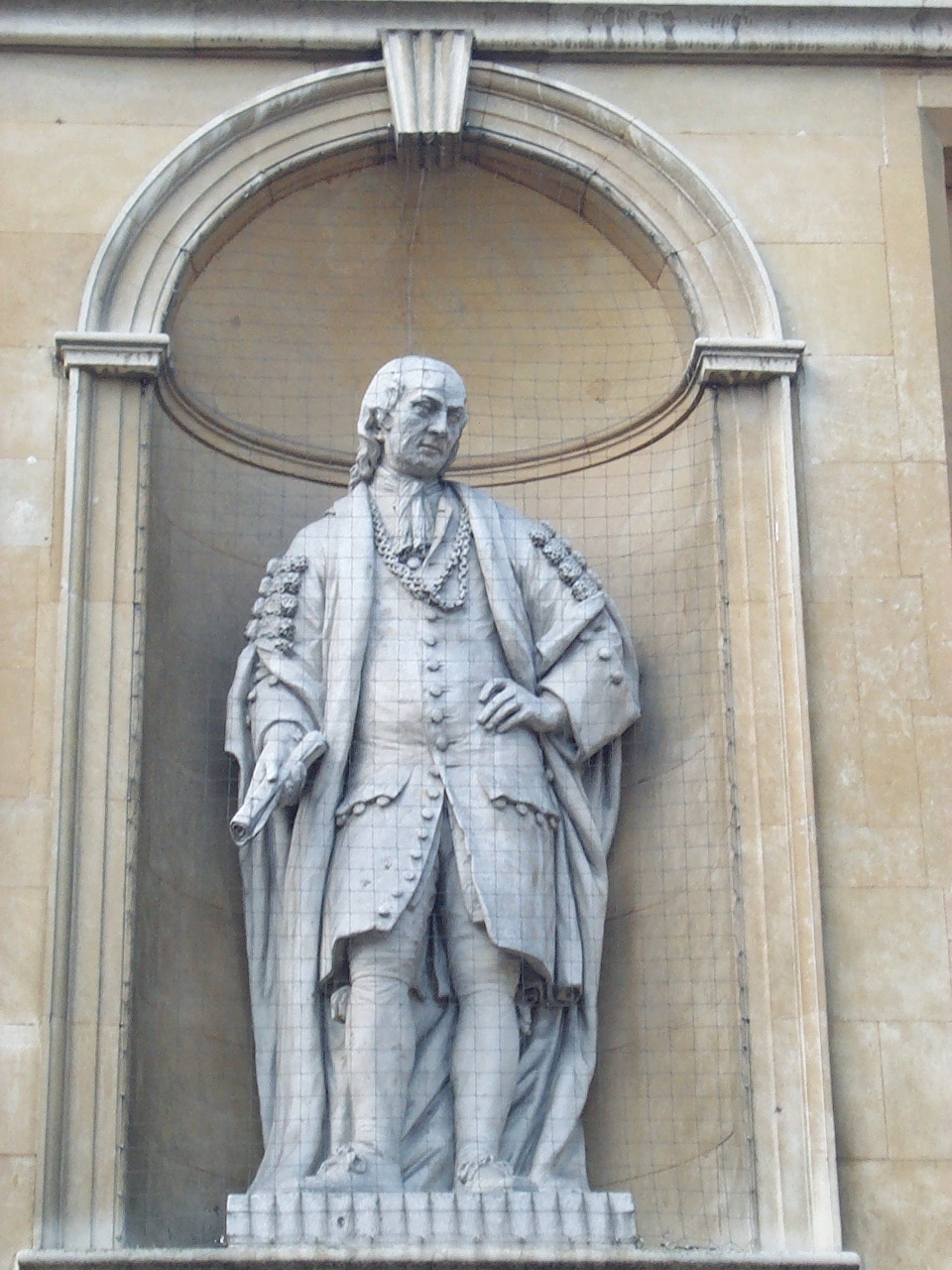 Statue of Sir William Harpur, one time Lord Mayor of London, in an alcove on the front of the Bedford Tourist Information Centre. The netting in front of it is to stop pigeons.